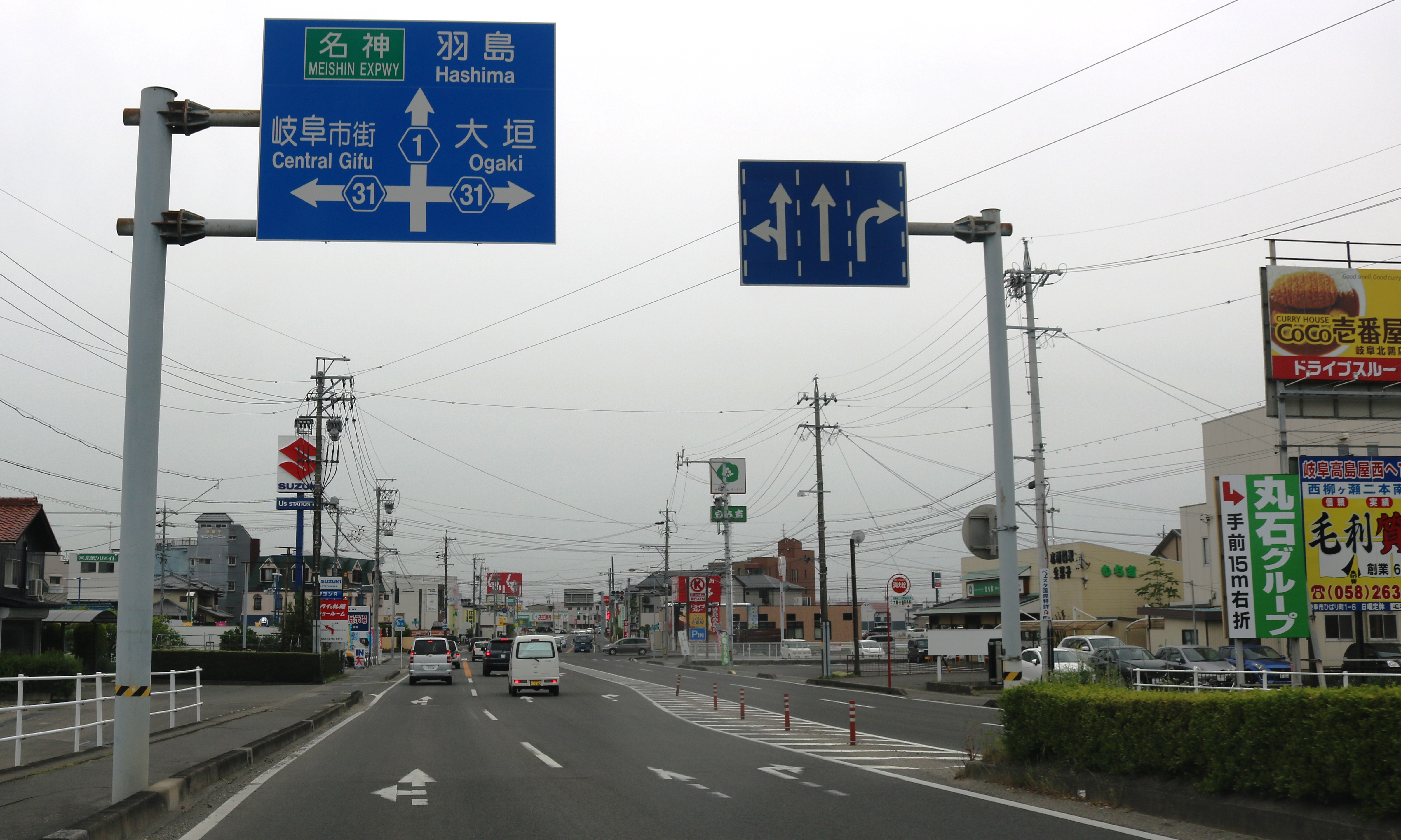 Gifu Prefectural Road Route 1 and Gifu Prefectural Road Route 31 in Kitauzura, Gifu City, Gifu Prefecture, Japan.